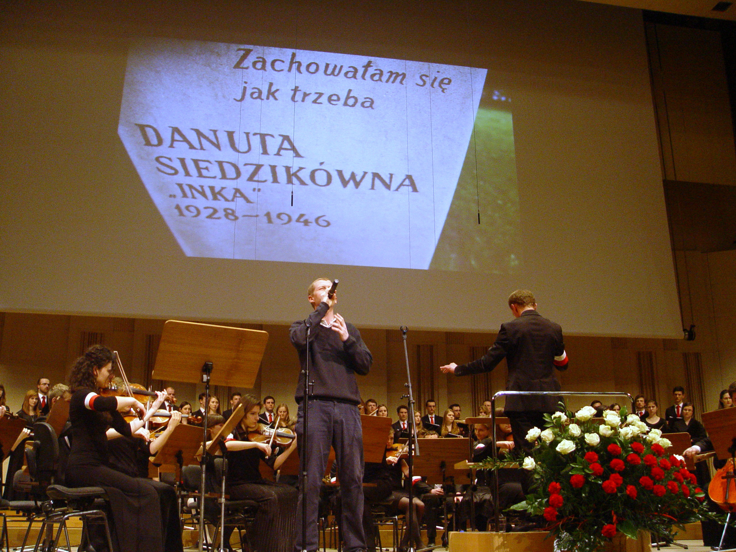 Tadeusz Polkowski "Tadek" - Polish rapper. Concert in Kielce Philharmonic, February 25, 2014